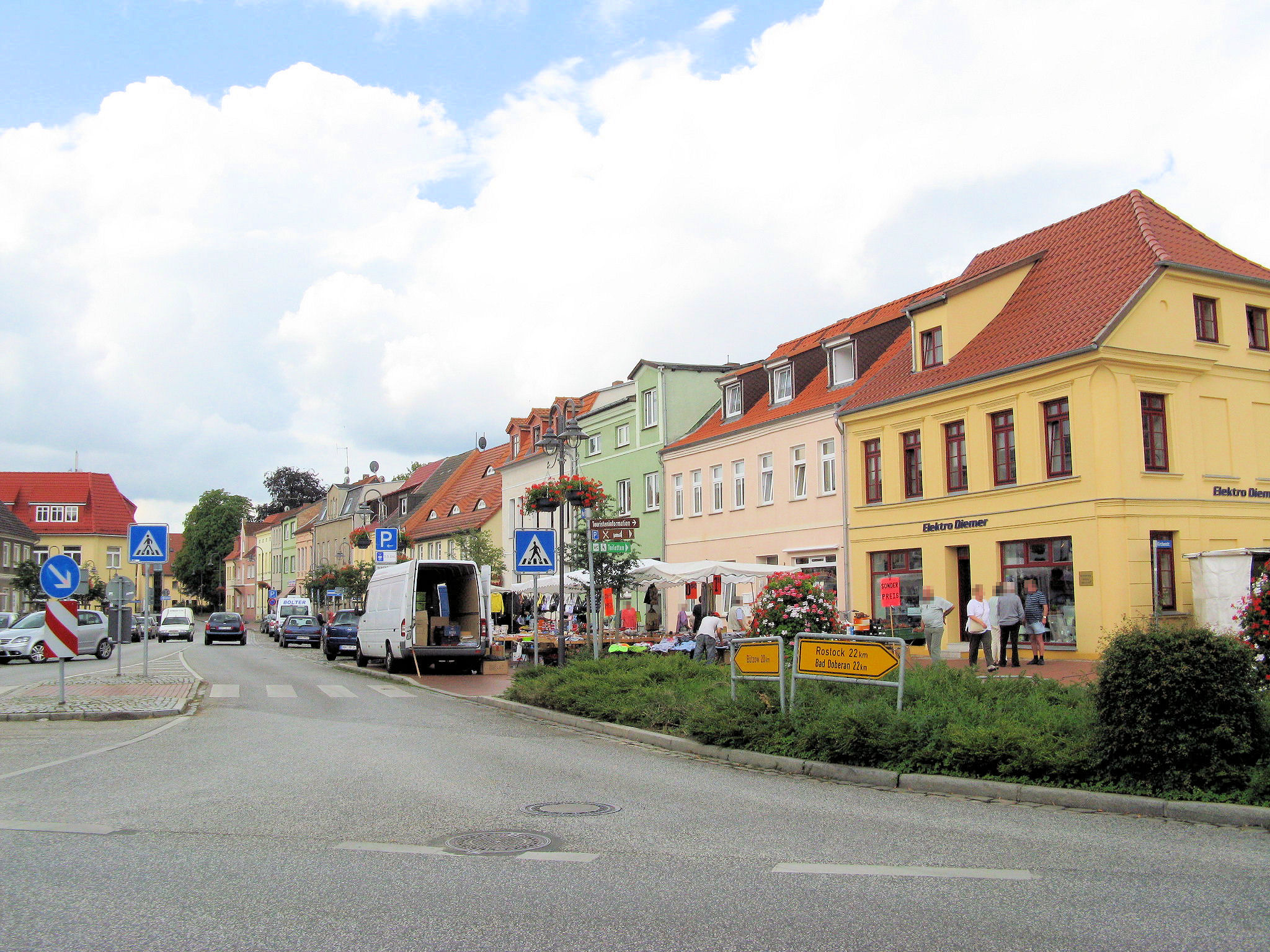 Market place in Schwaan, disctrict Bad Doberan, Mecklenburg-Vorpommern, Germany